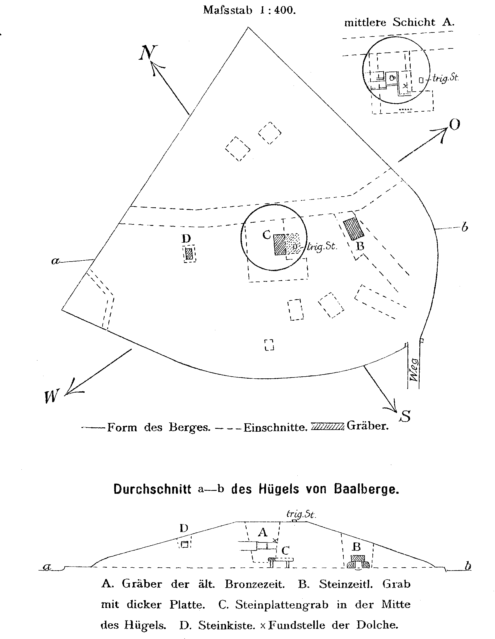 Plan of the Tumulus "Schneiderberg" at Baalberge